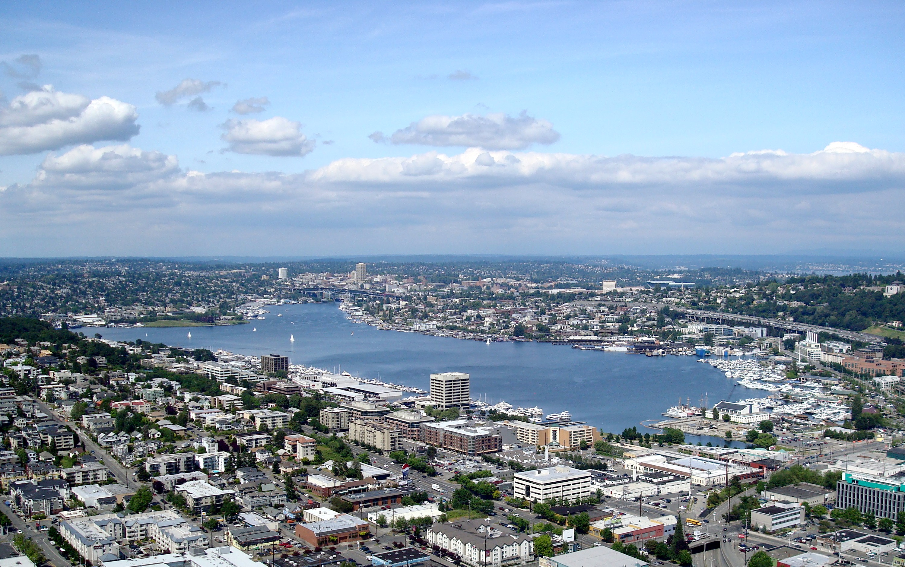 Lake Union seen from Space Needle in Seattle.